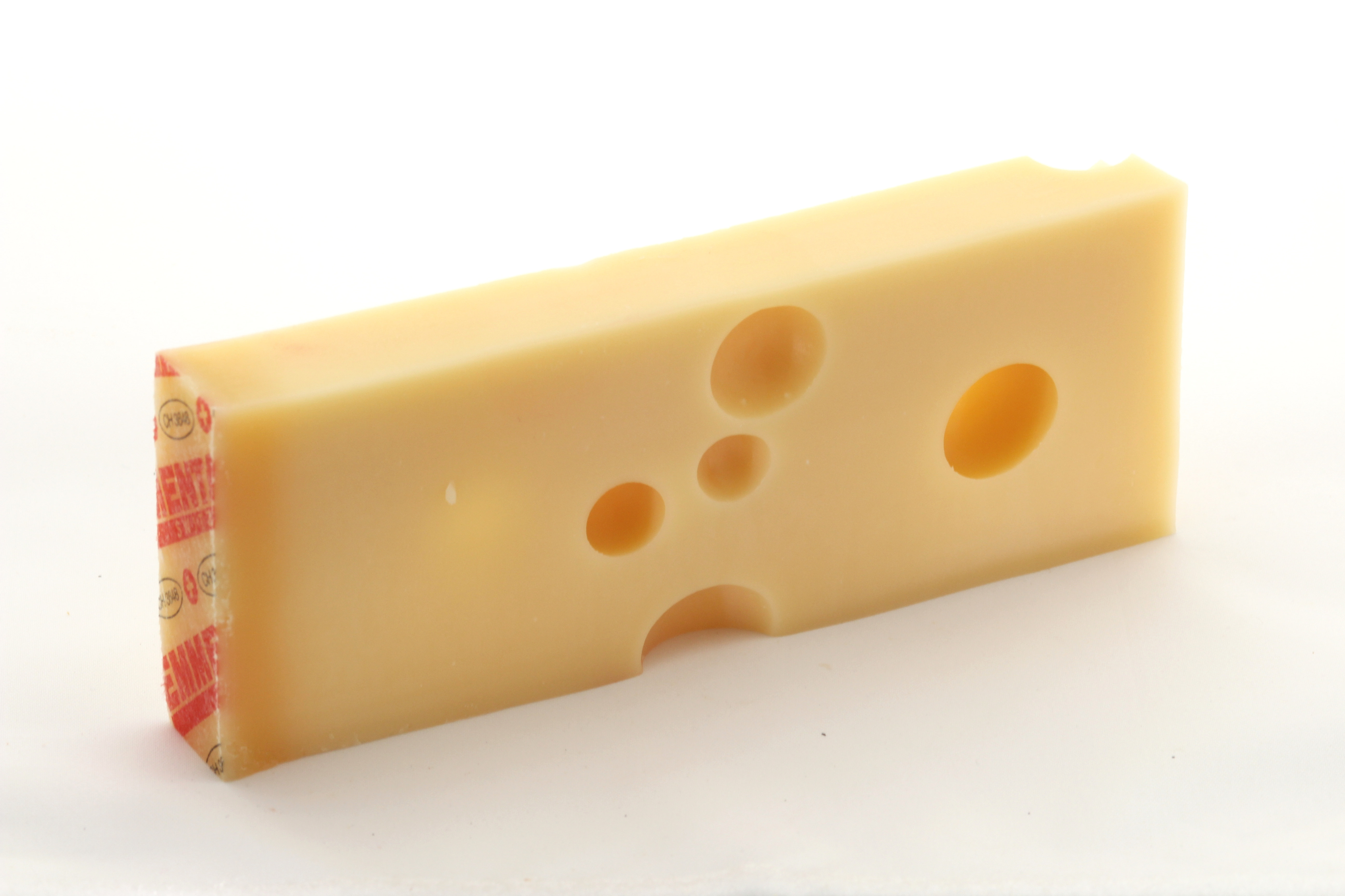 Emmentaler - Swiss hard cheese, from whole raw cow's milk